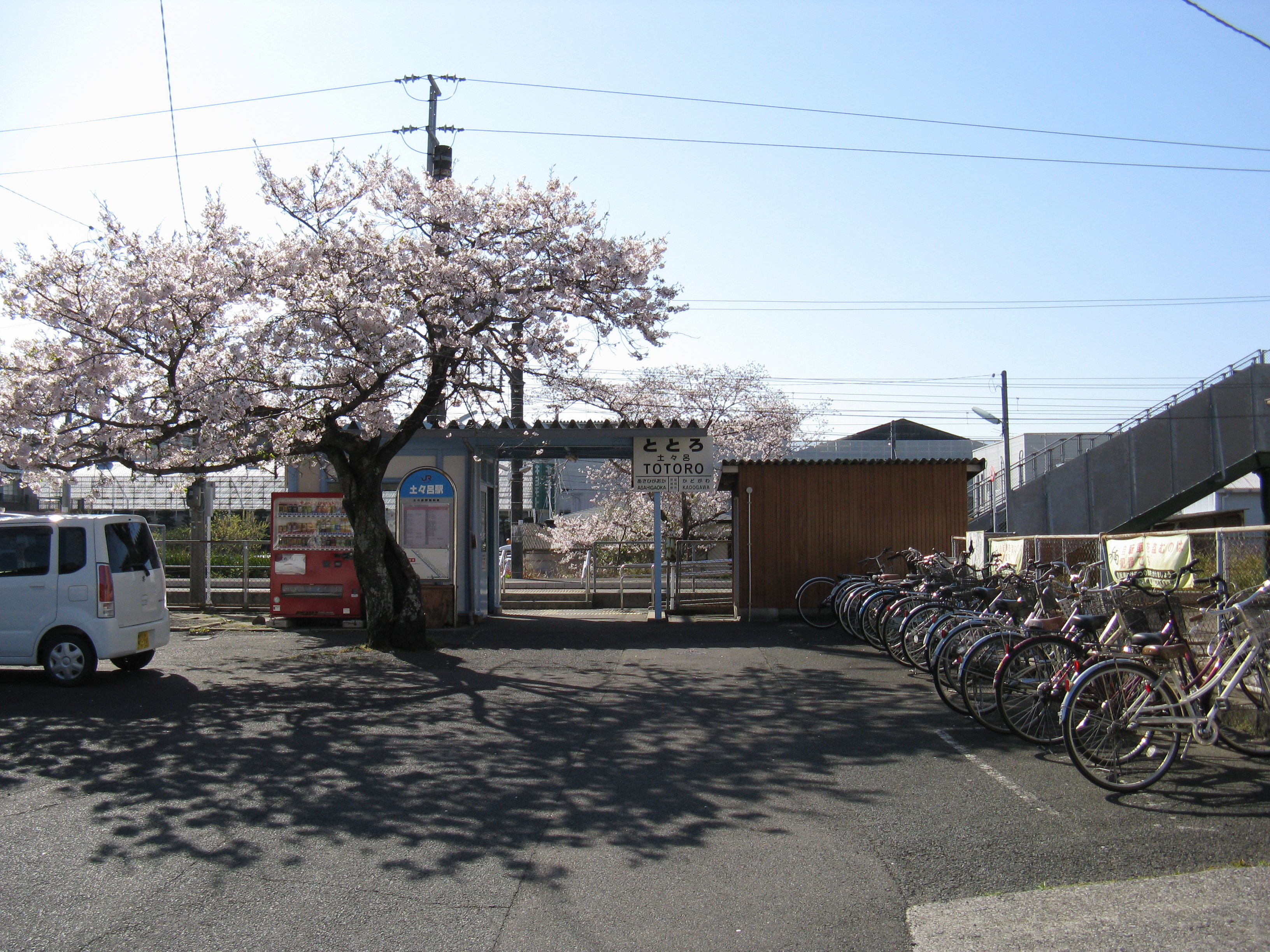 JR Totoro Station, 5 April 2011